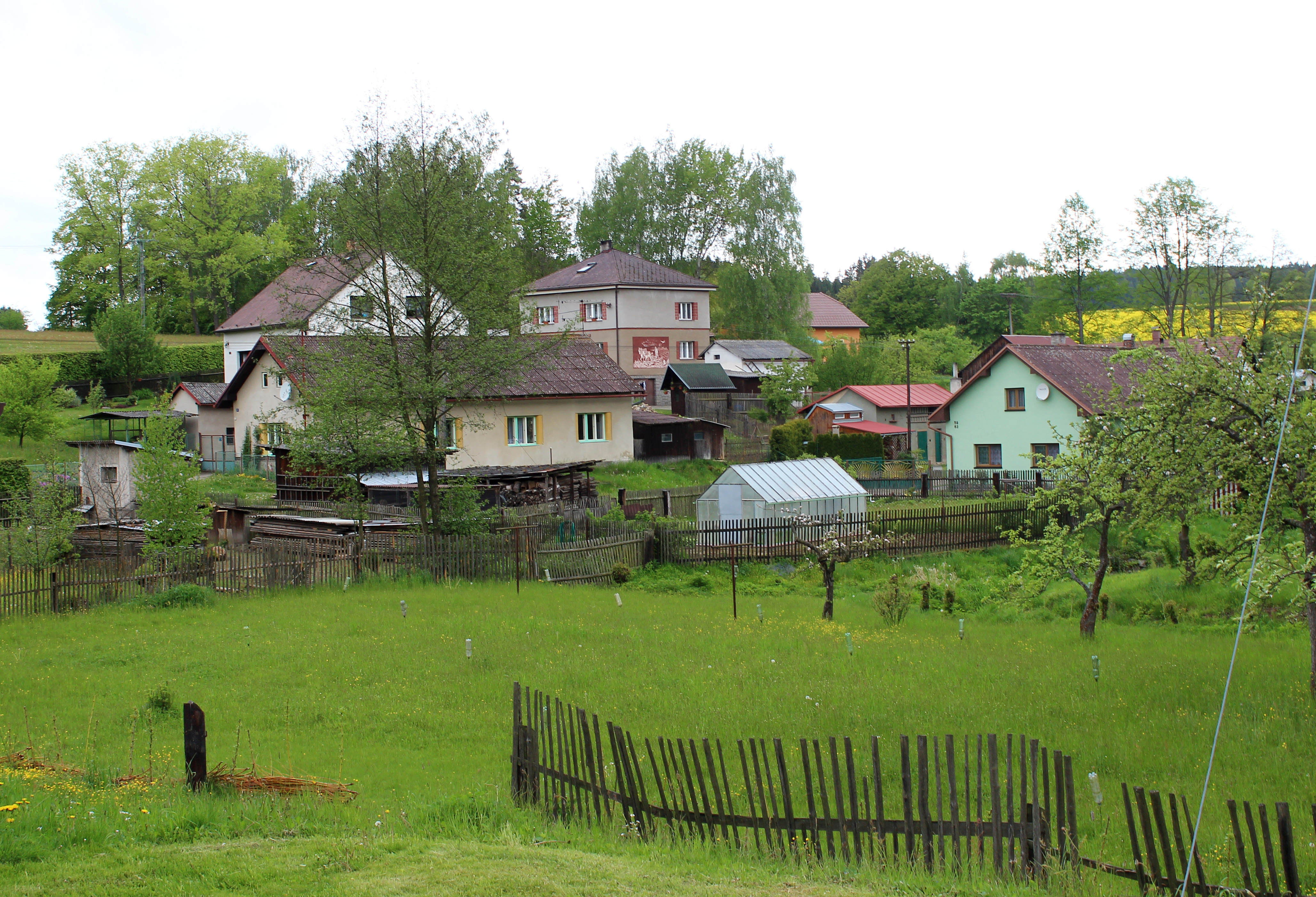 Dlouhá Ves village, Czech Republic